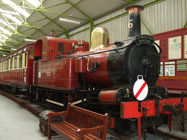 Port Erin Railway Museum